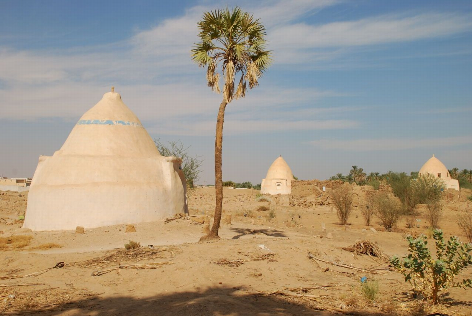 Tombs of holy sufi men. South of Dongola, Sudan.